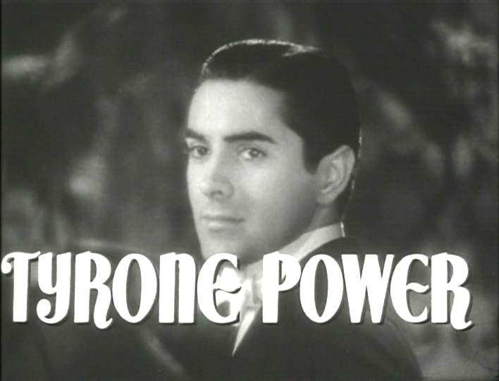 Screenshot of Tyrone Power from the trailer for the film Alexander's Ragtime Band